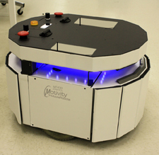 MobileRobots general-purpose robotic base, with the Motivity autonomous robot operating system, acts as a computer-on-wheels for robot developers. Like a computer, it is designed to serve any function its software puts it to.